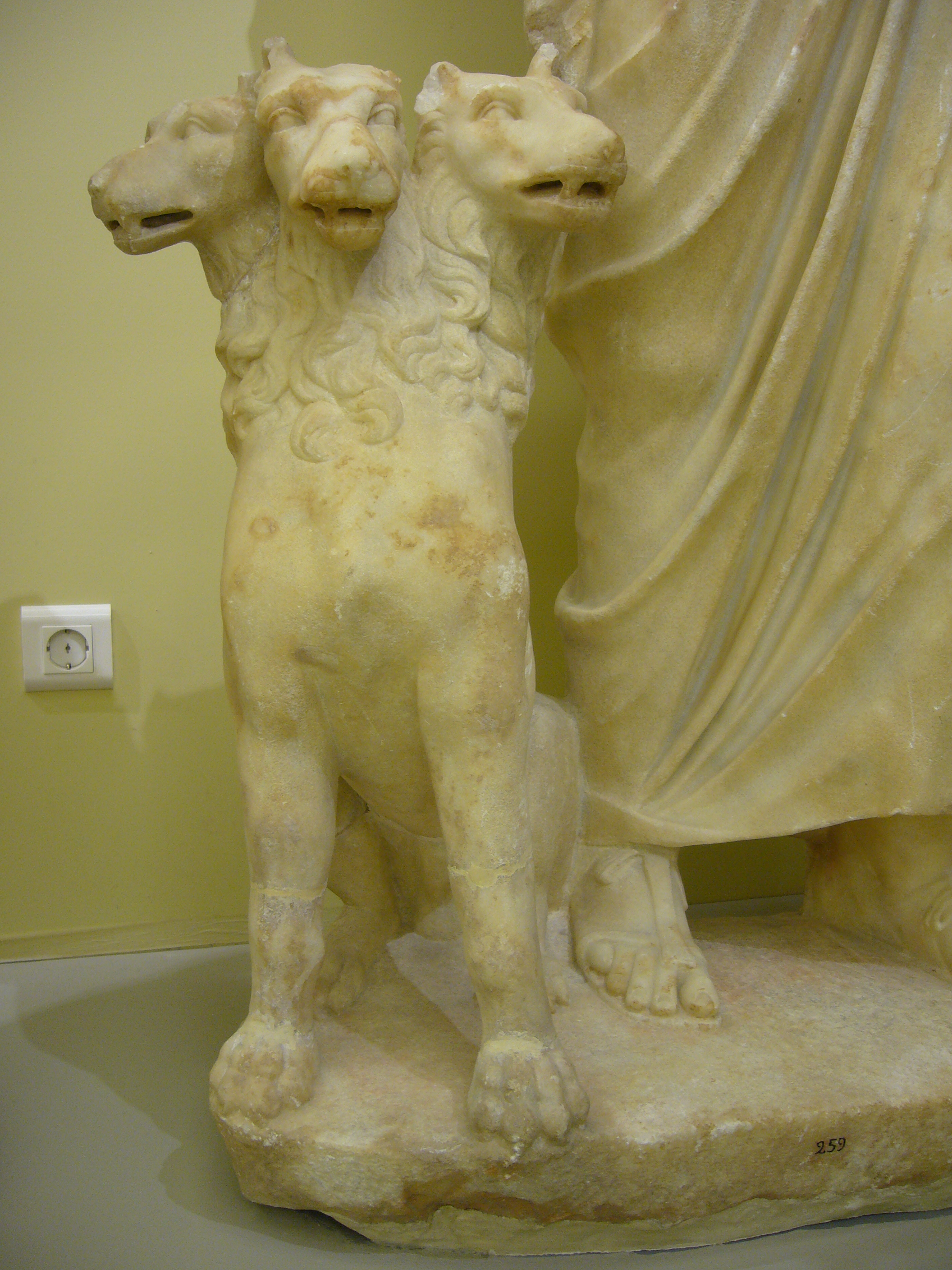 Detail of Roman sculpture of seated Hades, showing Cerberus